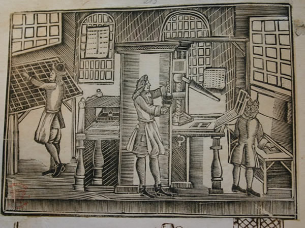 Printer's workshop (18th century woodcut)